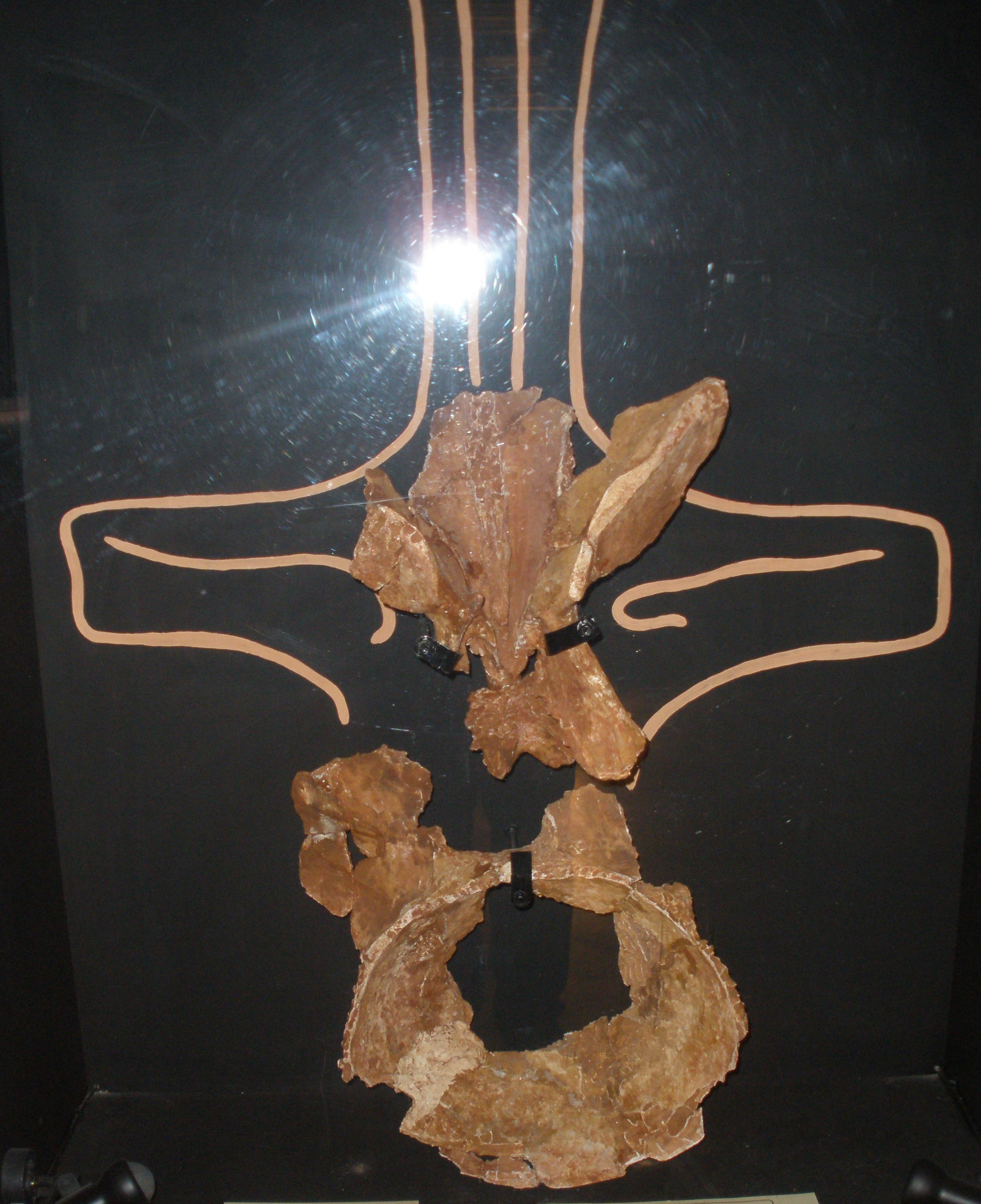 fossil of Rebbachisaurus garasbae, an extinct sauropod